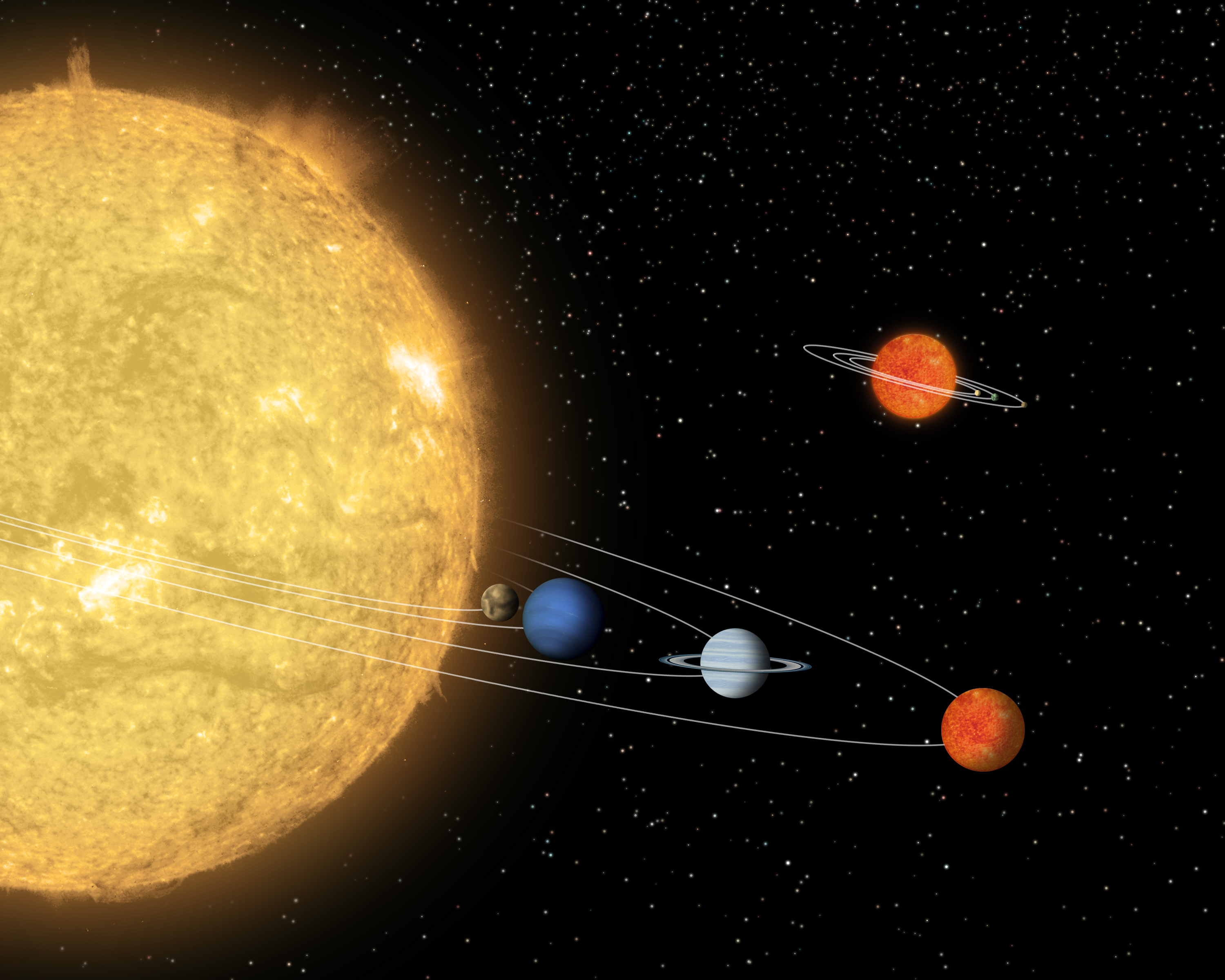 This artist's concept compares a hypothetical solar system centered around a tiny "sun" (top) to a known solar system centered around a star like 55 Cancri, which is about the same size as our sun.